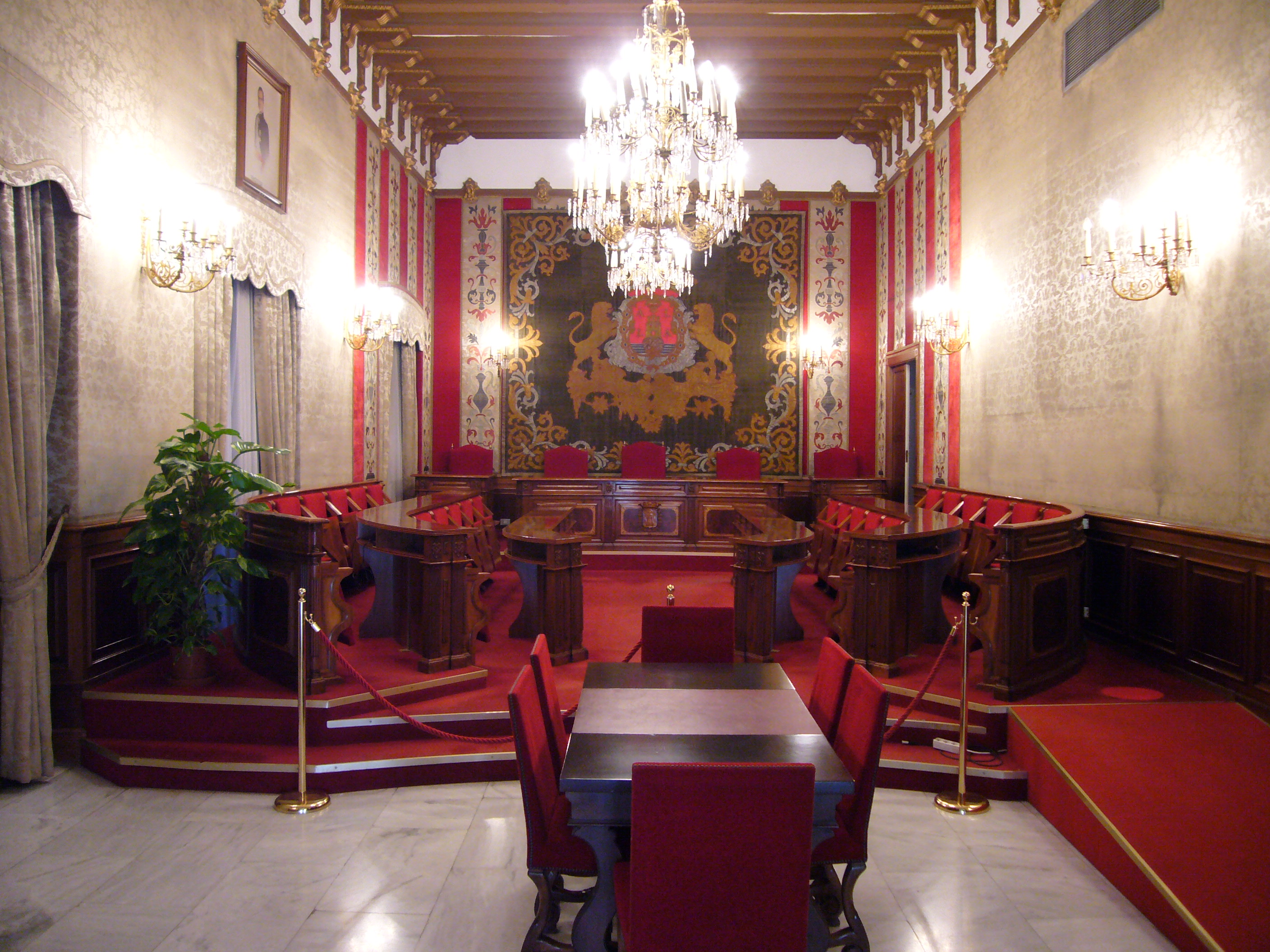 Plenary Hall of the City Council of Alicante (Spain).